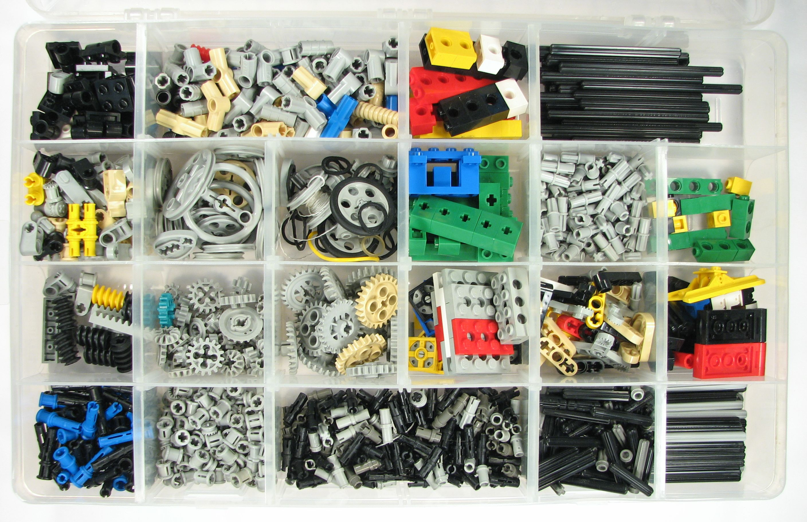 A simple solution to a minor problem: How to organize your Lego bricks for efficient building. Read more here.